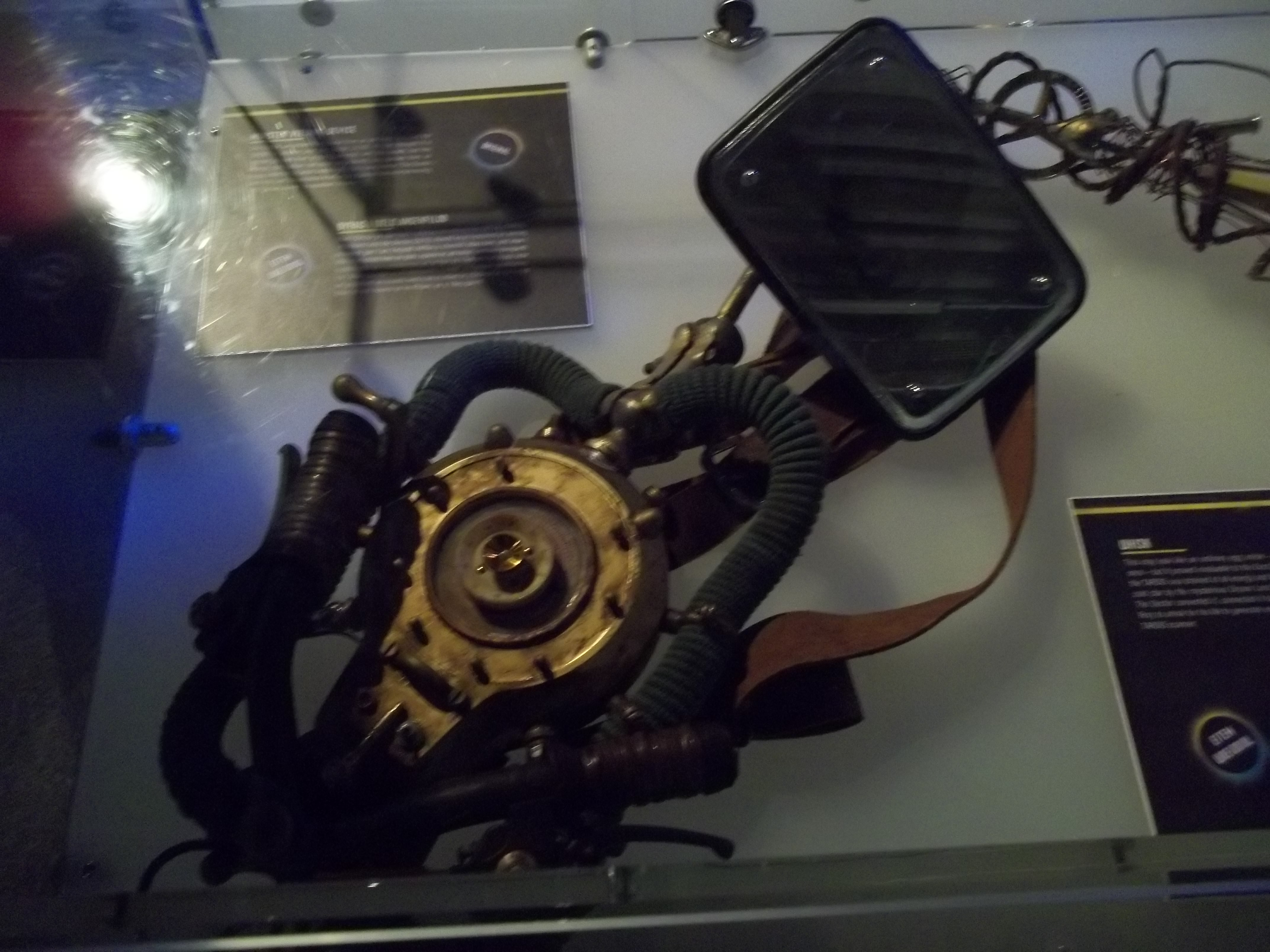 Monster Viewer Doctor Who Experience